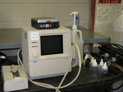 Ultrasound equipment for ultrasounding equines. Photo source: Kathy Anderson, University of Nebraska.